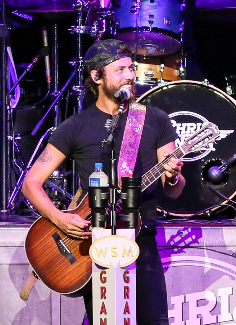 Chris Janson at the WMZQ Fest on May 18, 2019